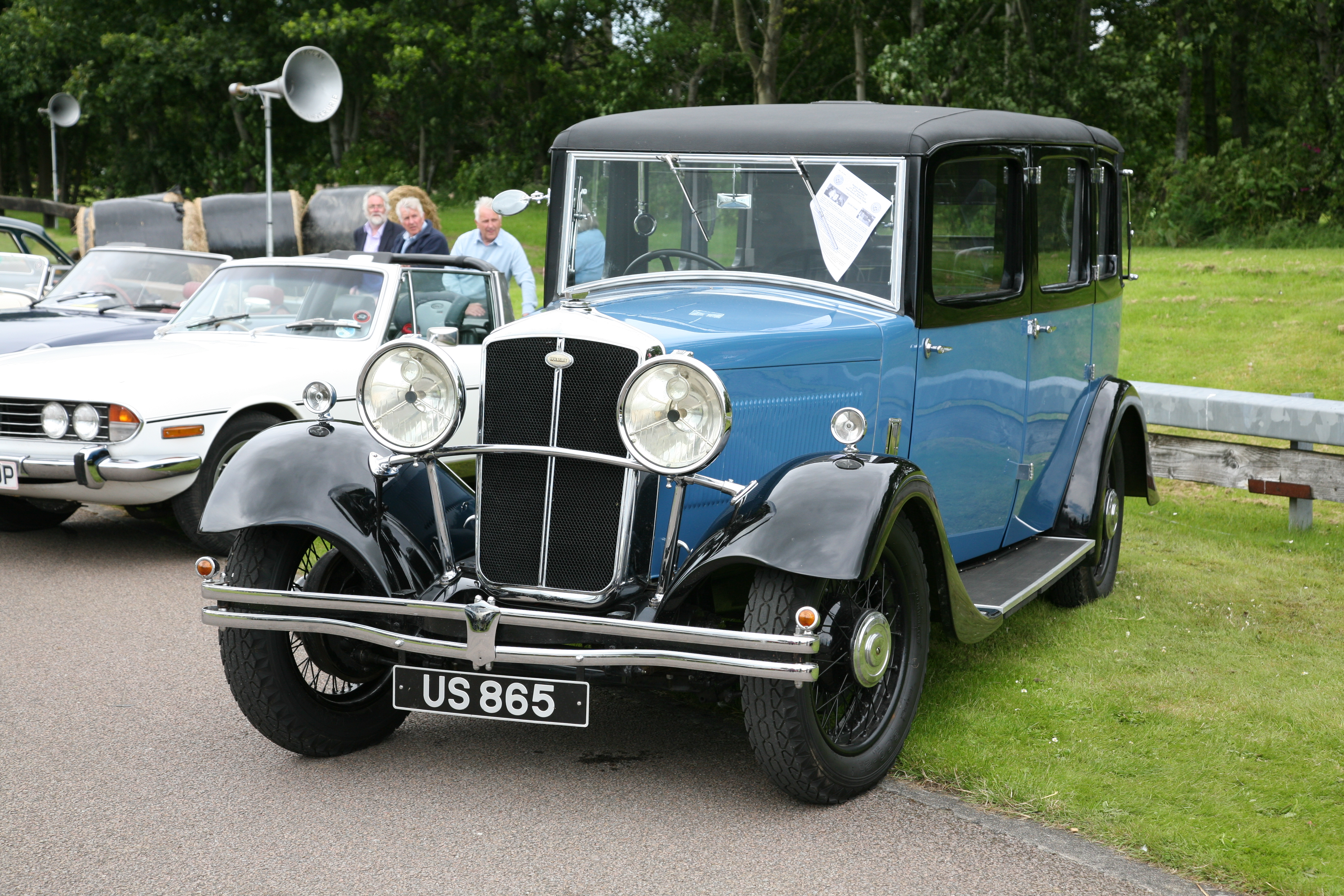 Wolseley 21/60 Landaulette 1933(DVLA) first registered 30 March 1933, 3013cc 21/60 h.p. 6-cylinder Saloon, automatic clutch, syncromesh gears and free wheel, Triplexglassthroughout, £415 (ex works). Tax £21.